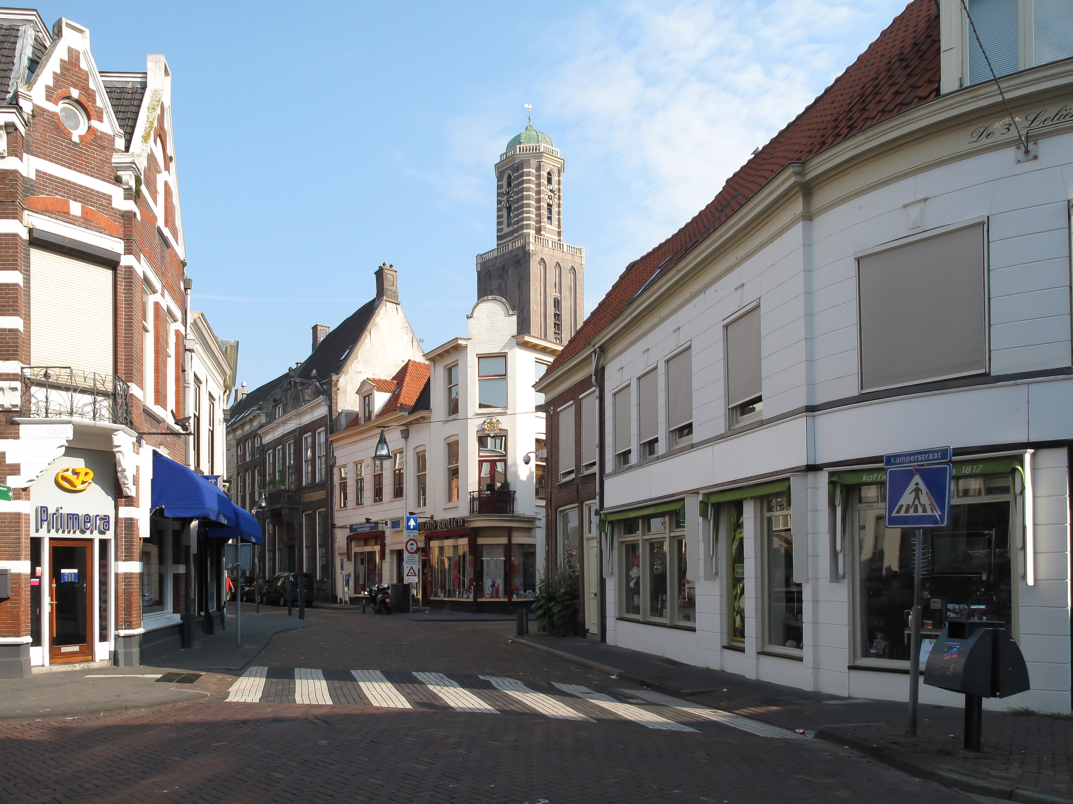 Zwolle, view to a street with a church